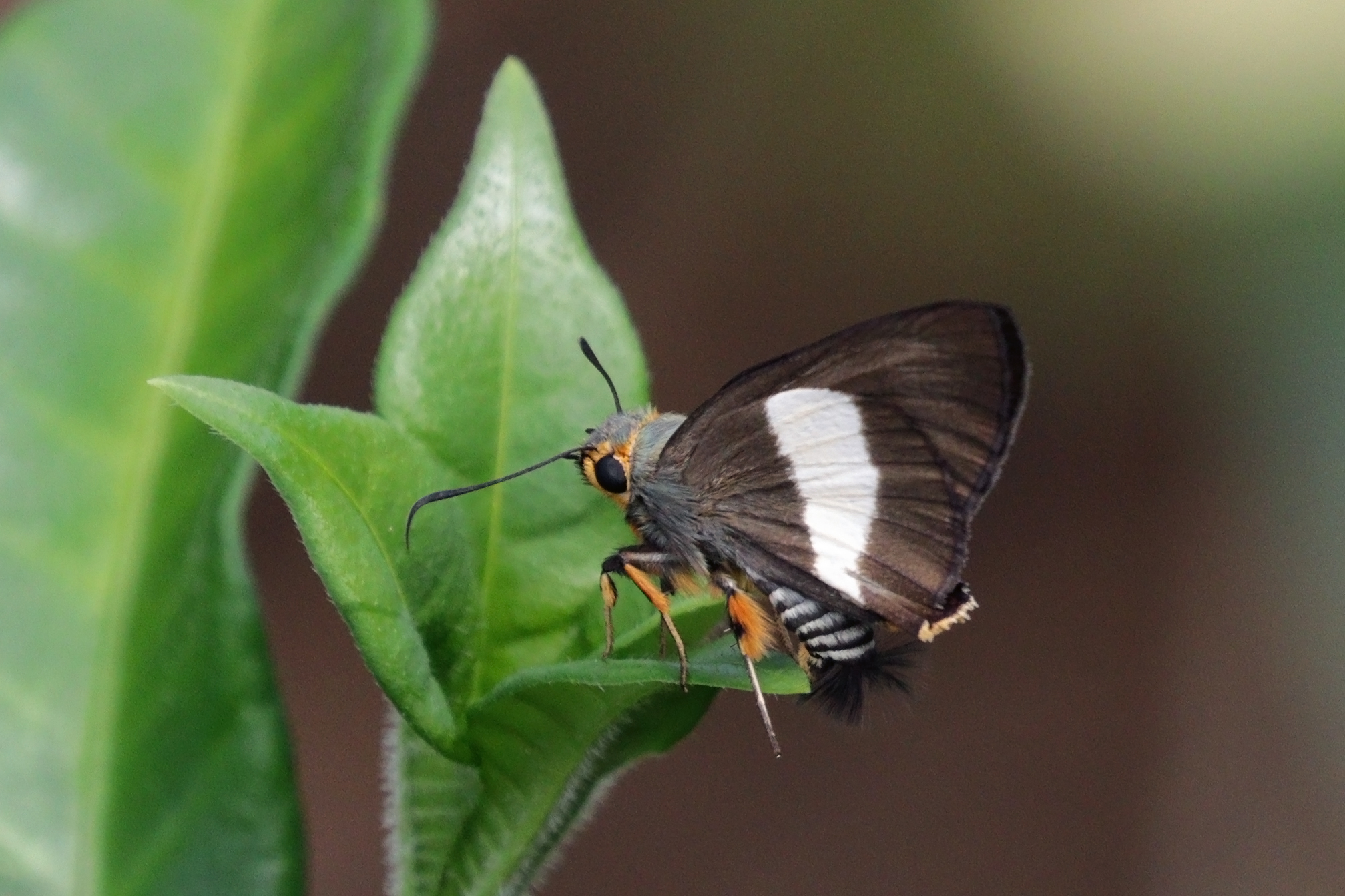 Striped policeman (Coeliades forestan arbogastes), Relais de l’Ankarana, Madagascar